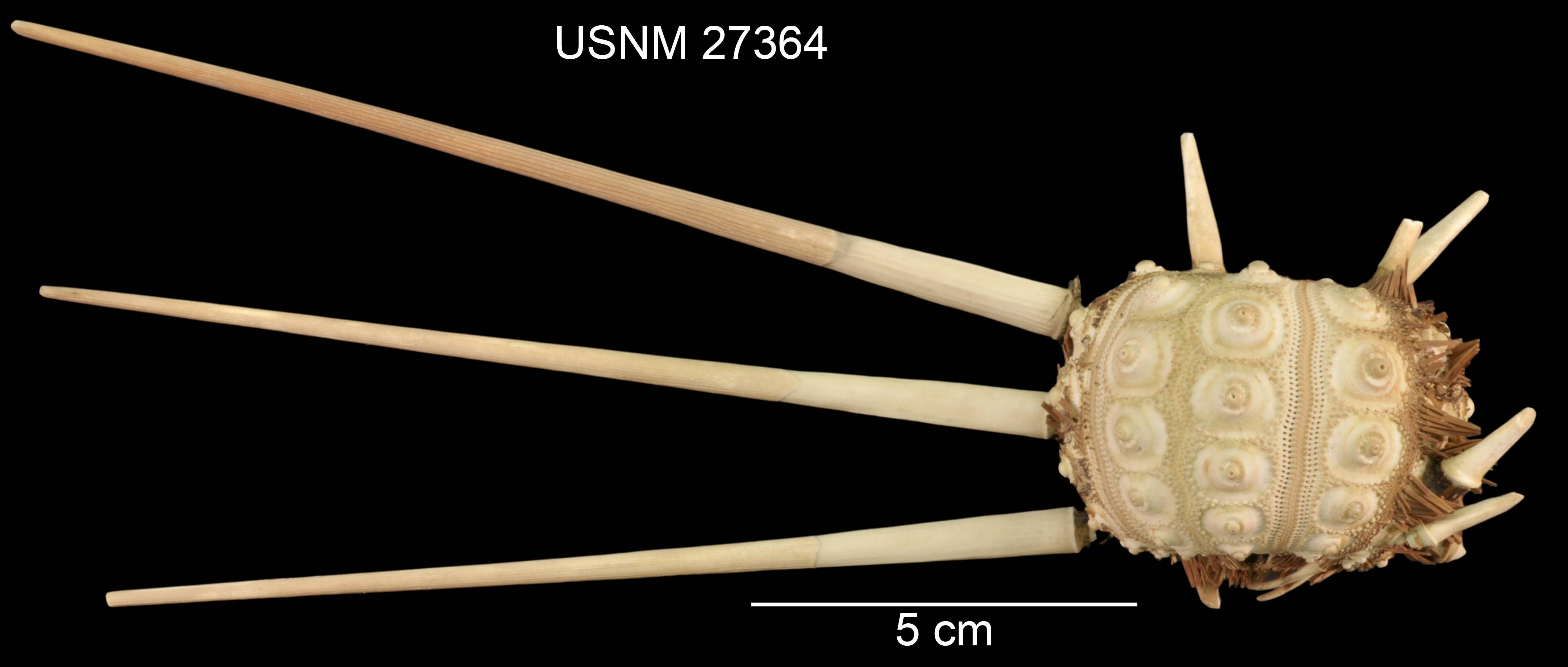 PRESERVED_SPECIMEN; Preparations: Dry; Acanthocidaris hastigera A.Agassiz & H.L.Clark, 1907; Individual count: 1; Type status: SYNTYPE; Identified by: Agassiz, Alexander E.; Clark, Hubert L.; Event date: 19020101T00:00:00Z; Additional description: Lateral